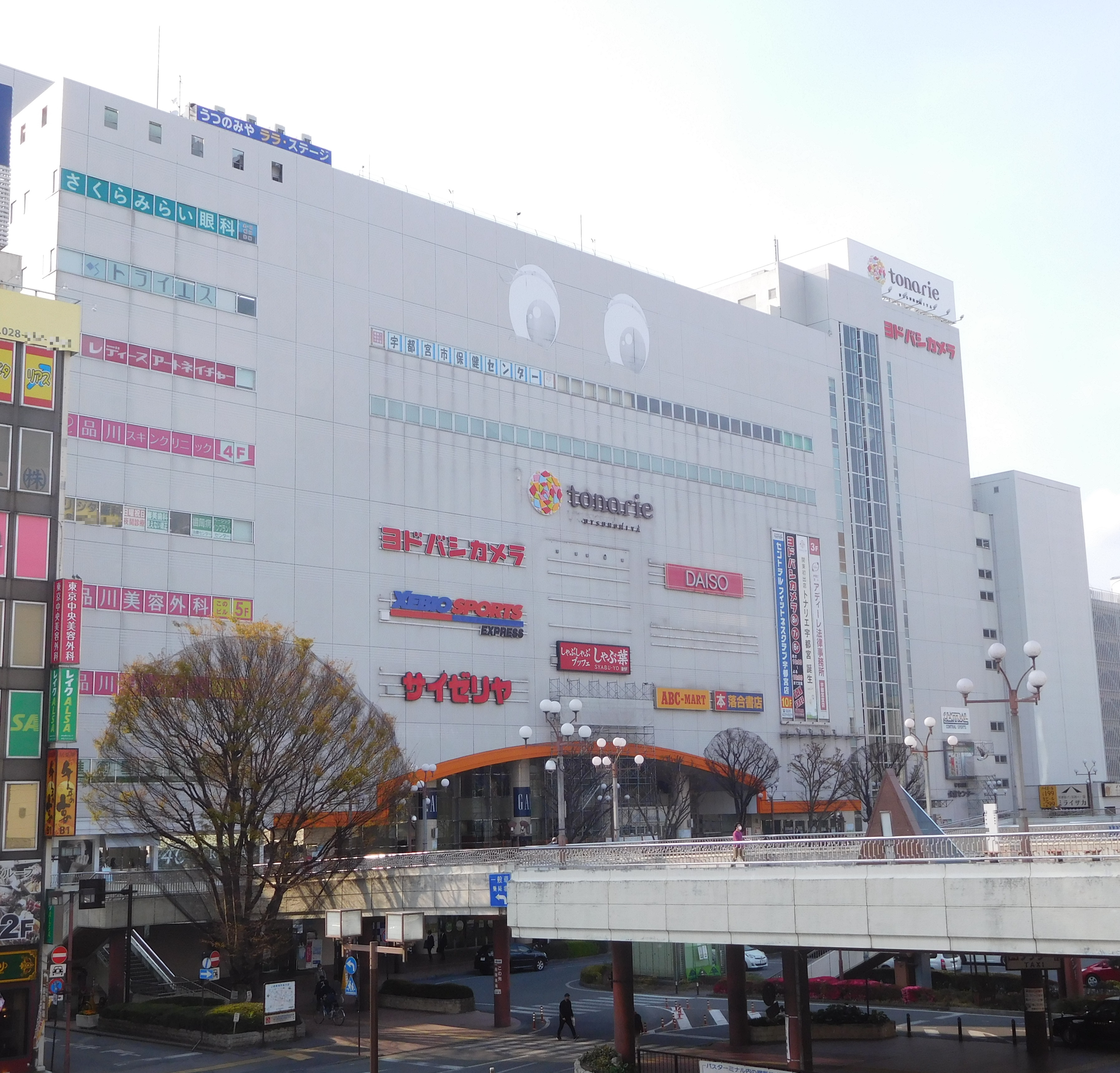 This is a retail building "Tonarie Utsunomiya" in front of JR Utsunomiya station, City of Utsunomiya, Tochigi, Japan.